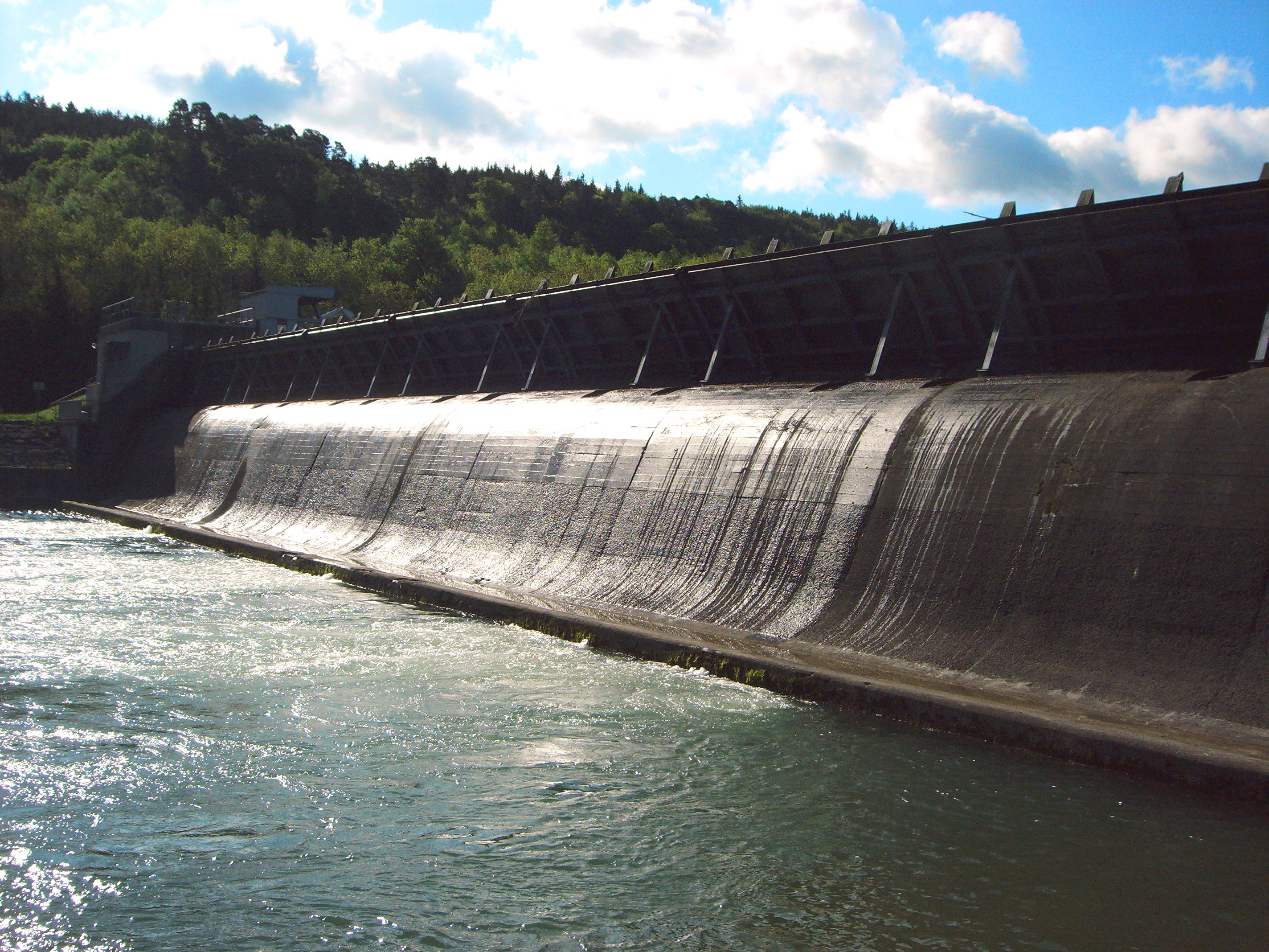 River Lech, Germany, Dam at "Staustufe 13" near Landsberg am Lech. Height: 8 Meters, 8.2 MW, 613 Meters above Sealevel, Operated by EON